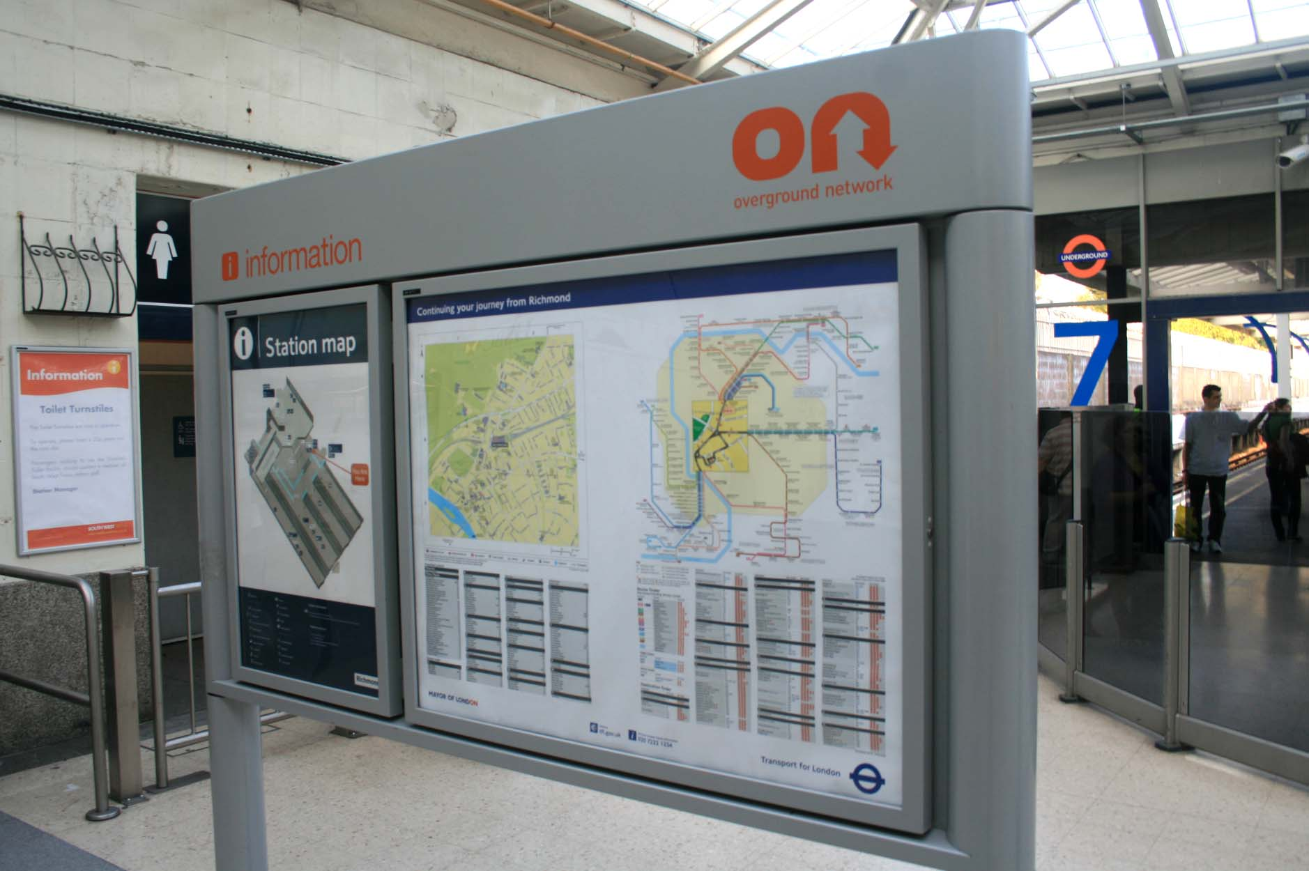 A sign in Richmond Station, London, displaying the "ON" branding of the defunct Overground Network.